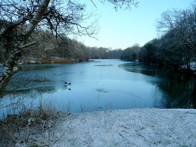 Lower Cannop Pond; midwinter Two ducks take off from the surface of the partly-frozen lake.